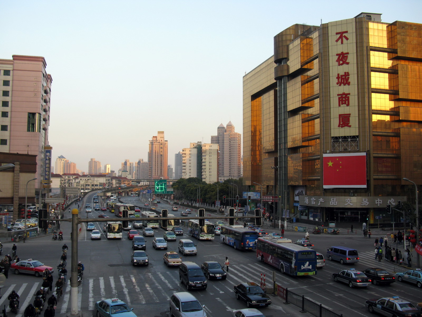 West Tianmu Road, Zhabei District